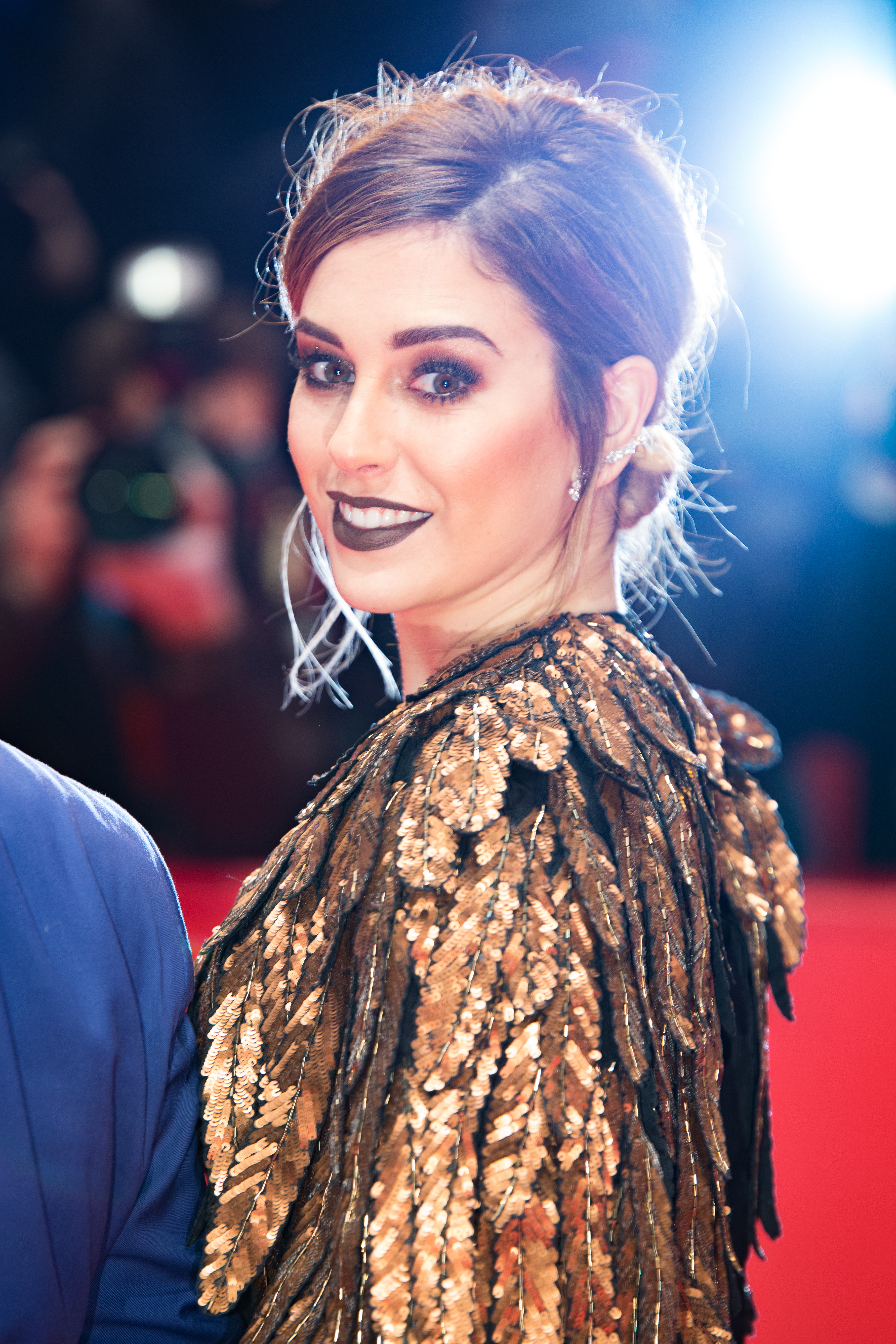 The actress Blanca Suárez on the red carpet at the opening night of the movie The Bar at the Berlinale 2017